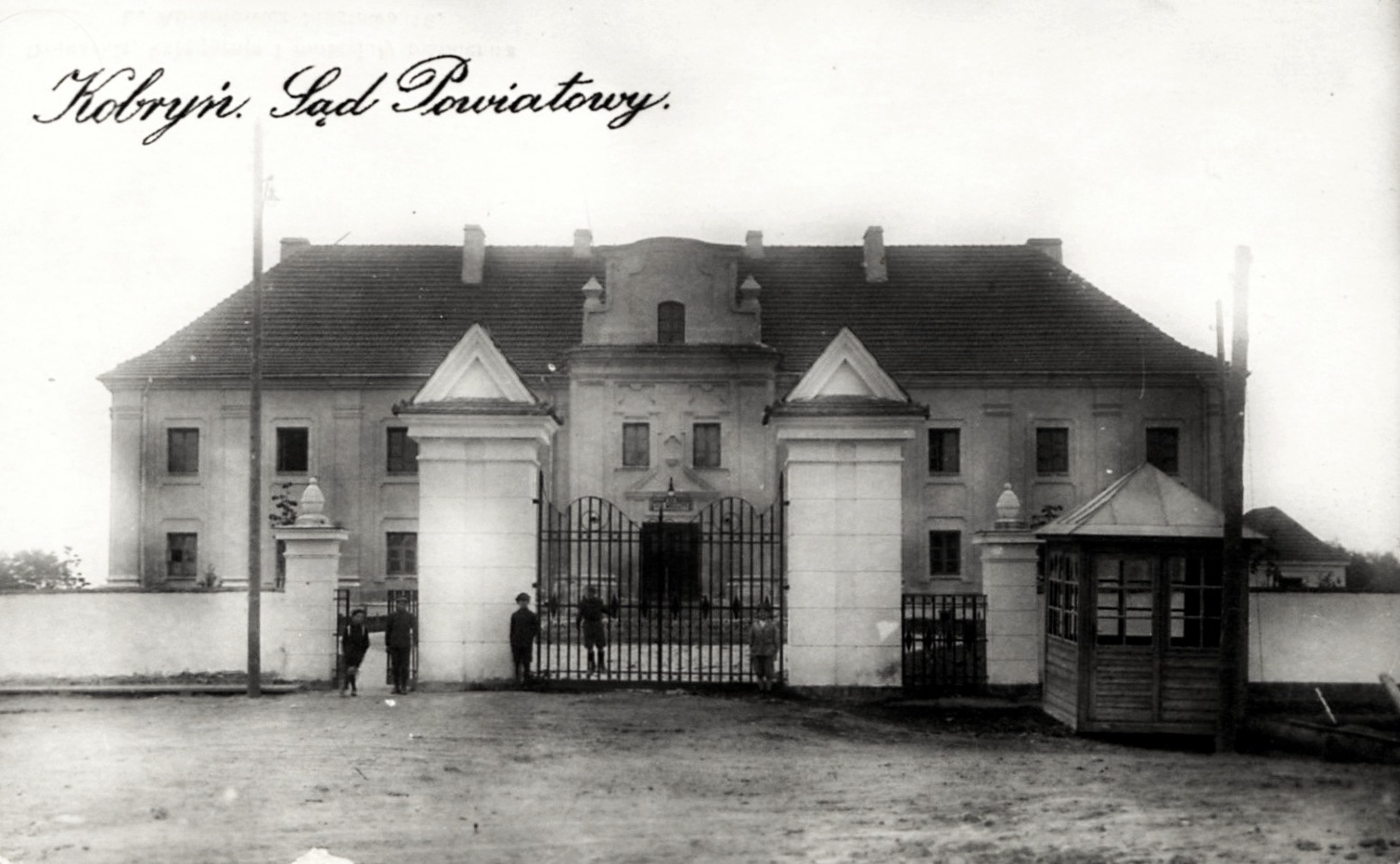 Uniat Monastery in Kobryń